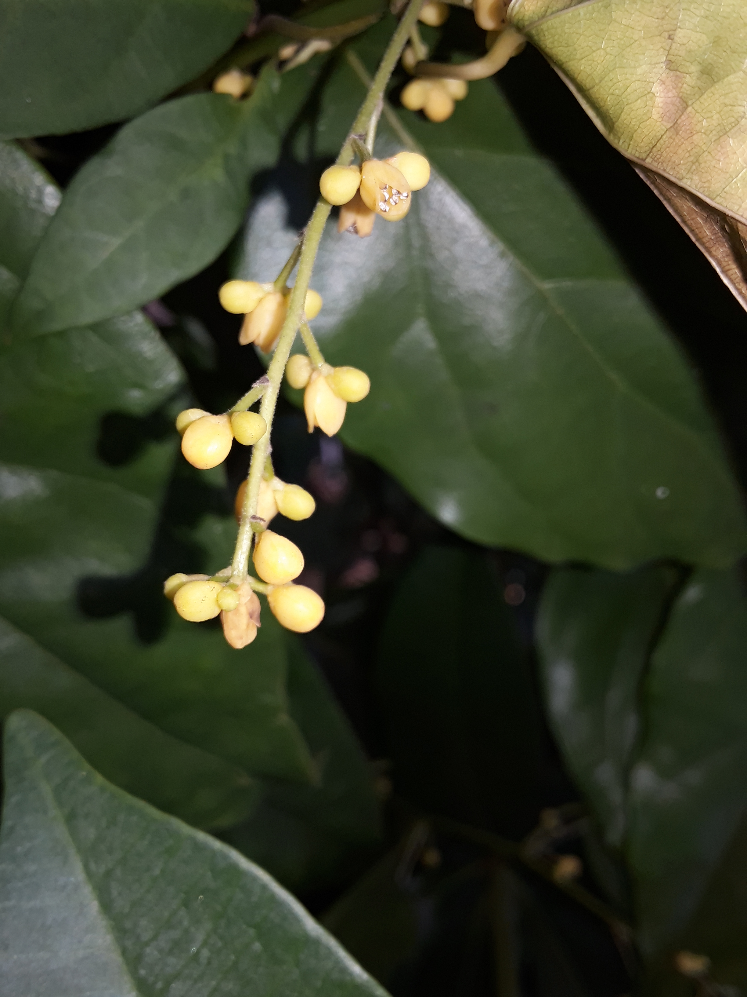 Flower